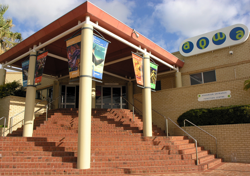 Front Entrance to AQWA. See AQWA